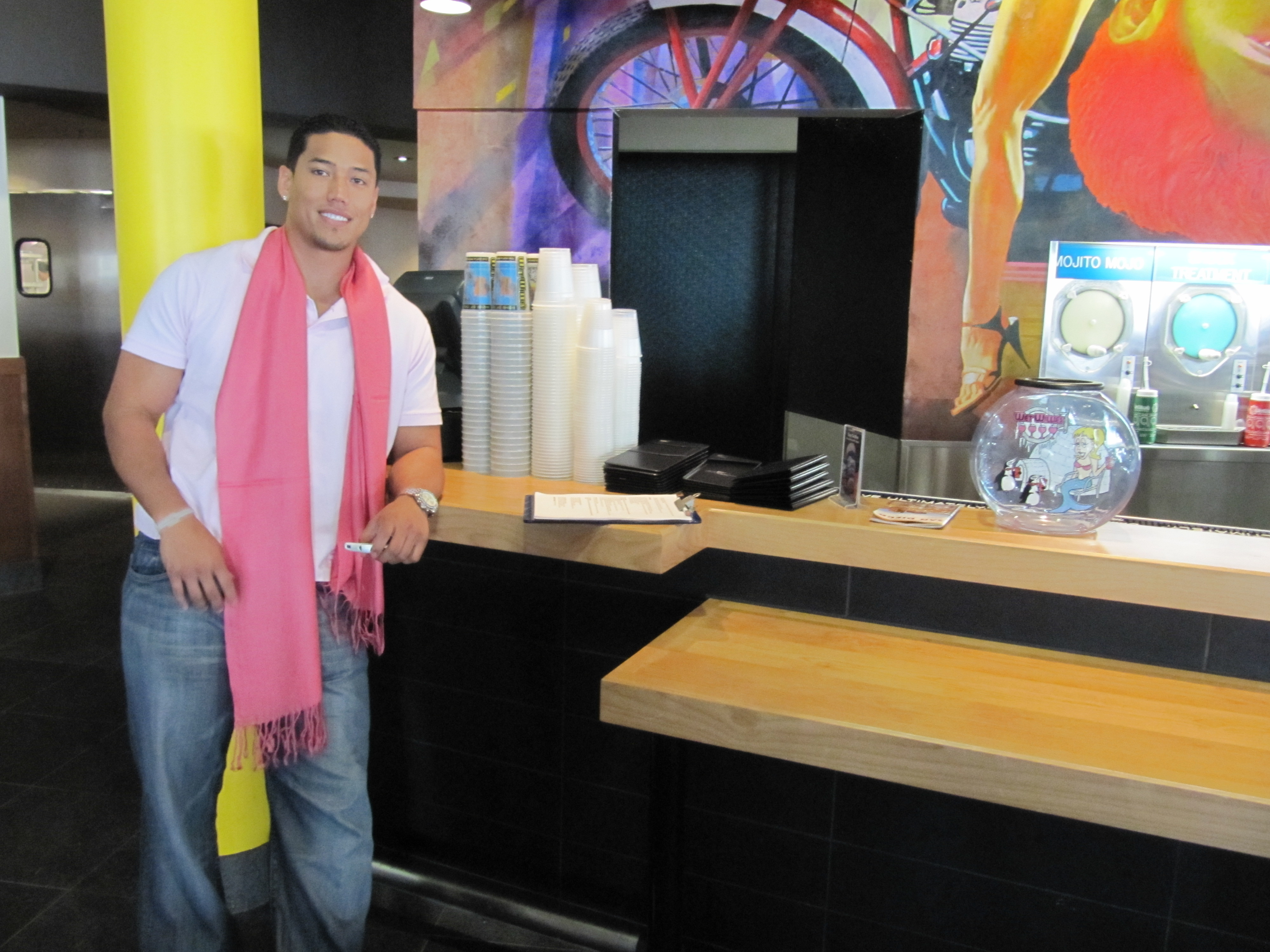 Will Demps opened a Wet Willies chain restaurant-pub in San Diego with a Grand Opening in October of 2010. Photograph by Patty Mooney, Crystal Pyramid Productions, San Diego, California.